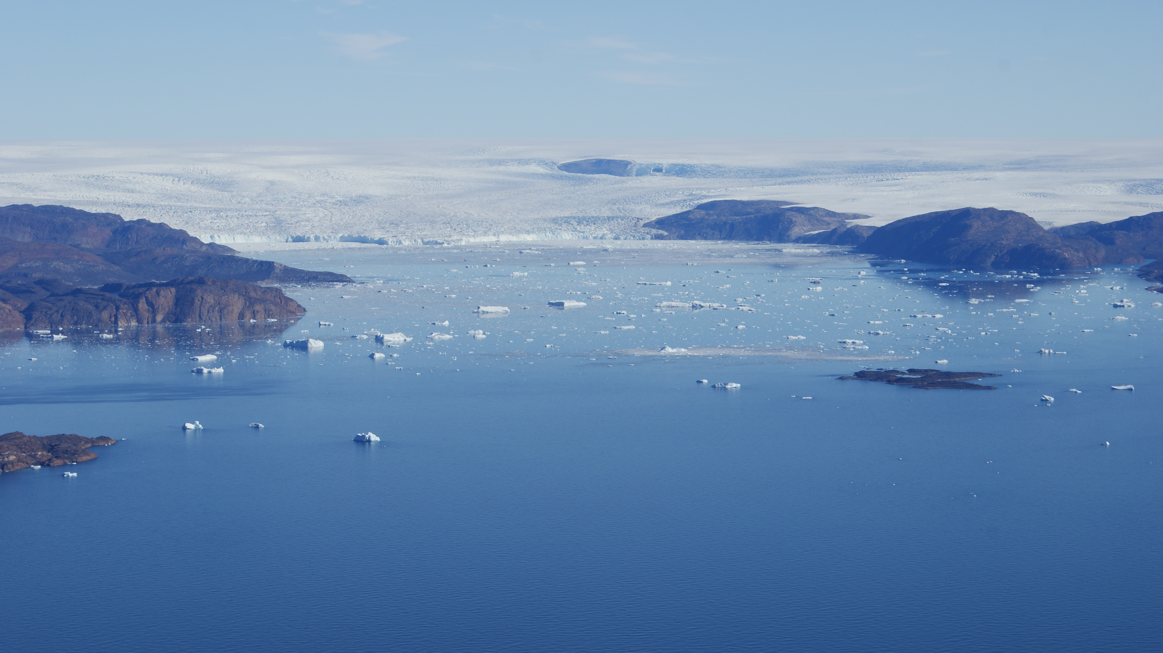 Aerial view of inner (eastern) Inussulik Bay, Upernavik Archipelago, Greenland. Photographed from the Air Greenland Bell 212 during the Kullorsuaq-Nuussuaq flight. Illullip Sermia, the glacier tongue of ice with which Greenland Icesheet falls into the ocean; calving icebergs.